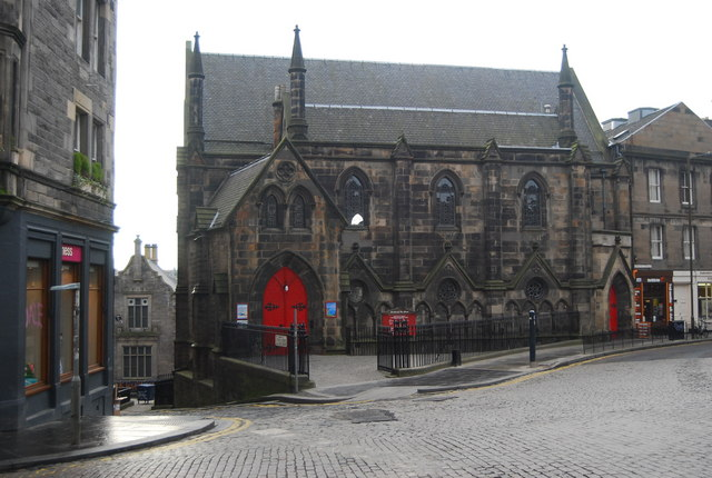 St Columba's Free Church